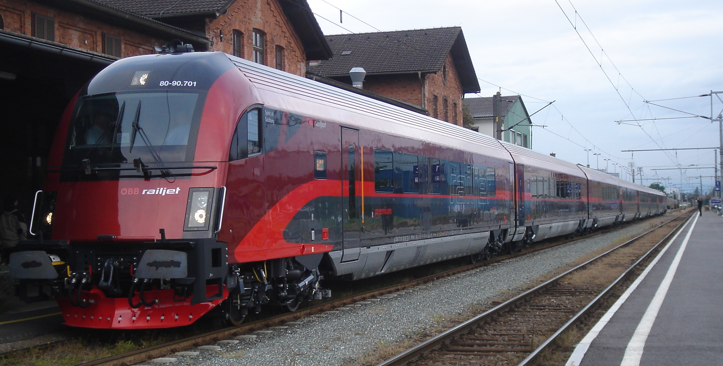 Railjet trainset "Spirit of Salzburg" of Österreichische Bundesbahnen (Austrian Federal Railways).